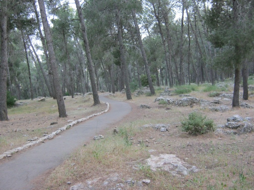 At the Cairo's Dead Grove in Aminadav Forest